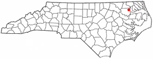 Category:North Carolina Dot Maps